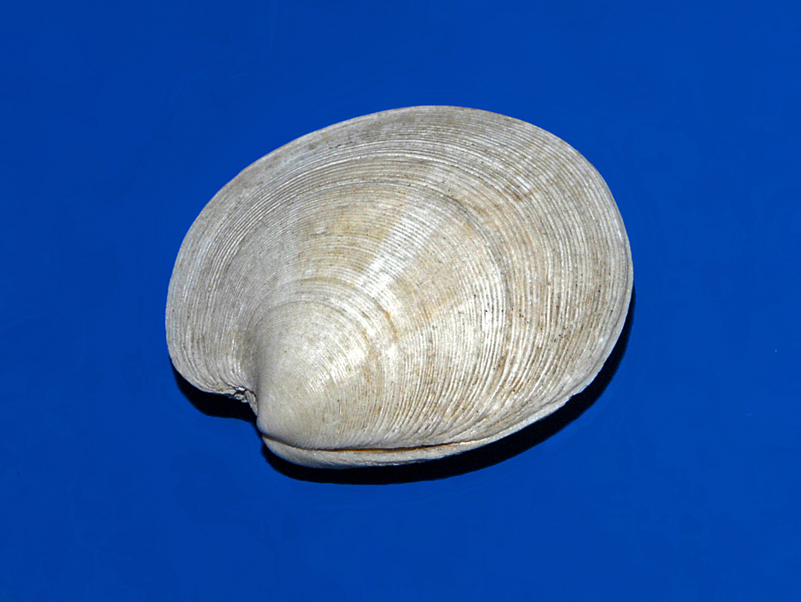 A shell of Dosinia exoleta from Campania, Italy at the Museo Civico di Storia Naturale di Milano